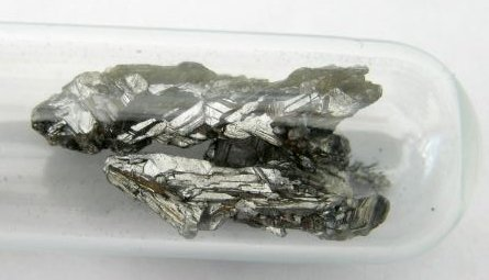 Description Elemental arsenic — mineral specimen.